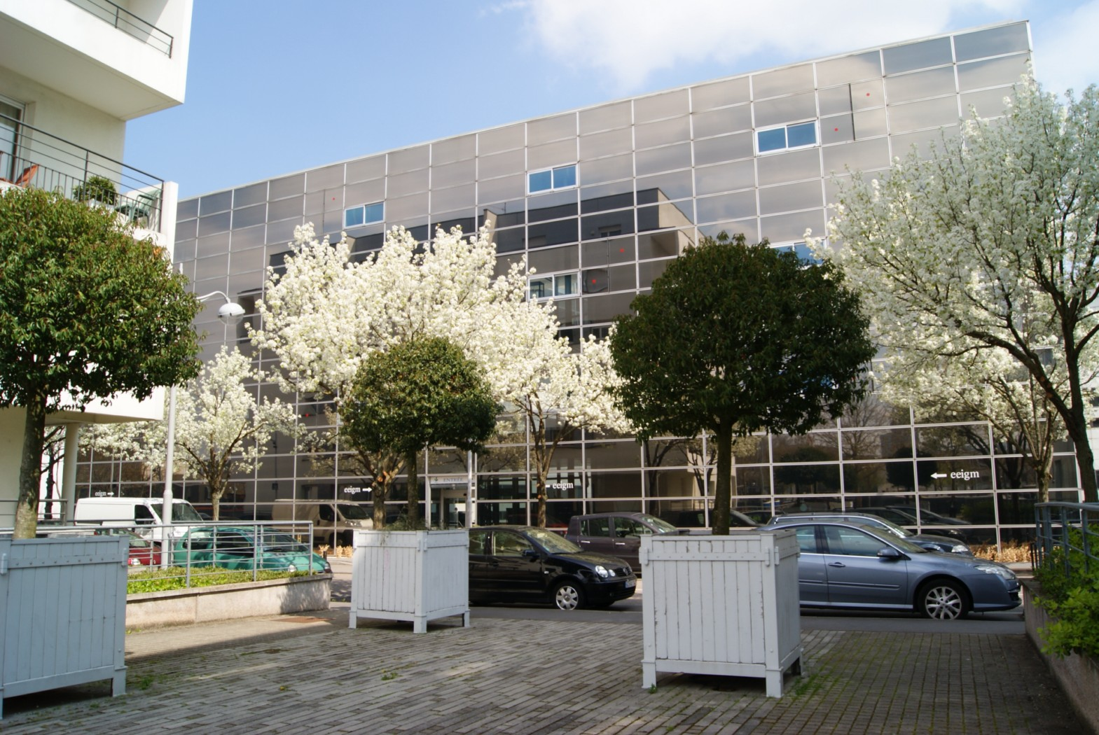 Bâtiment de l'EEIGM au printemps